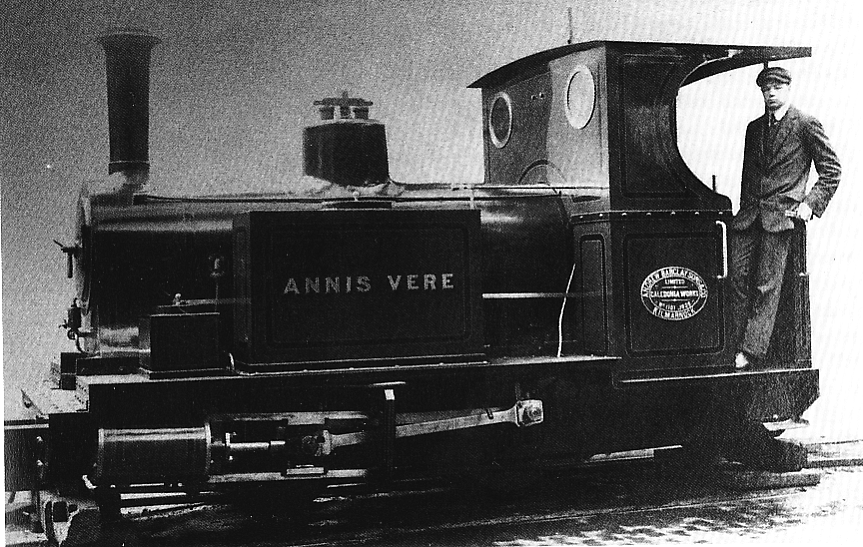 First Locomotive of Silimpopon Coal Mine, an Andrew Barclay 0-4-0T Serial 1101 (1906)